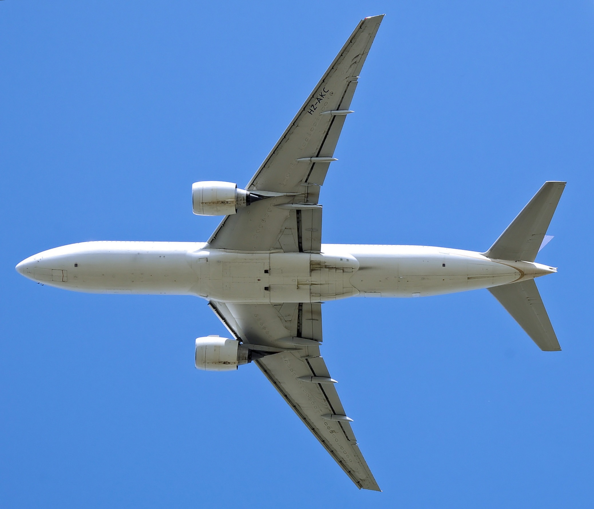 Saudi Arabian Airlines Boeing 777-200ER (HZ-AKC) departs London Heathrow Airport, England. The undercarriages have fully retracted.